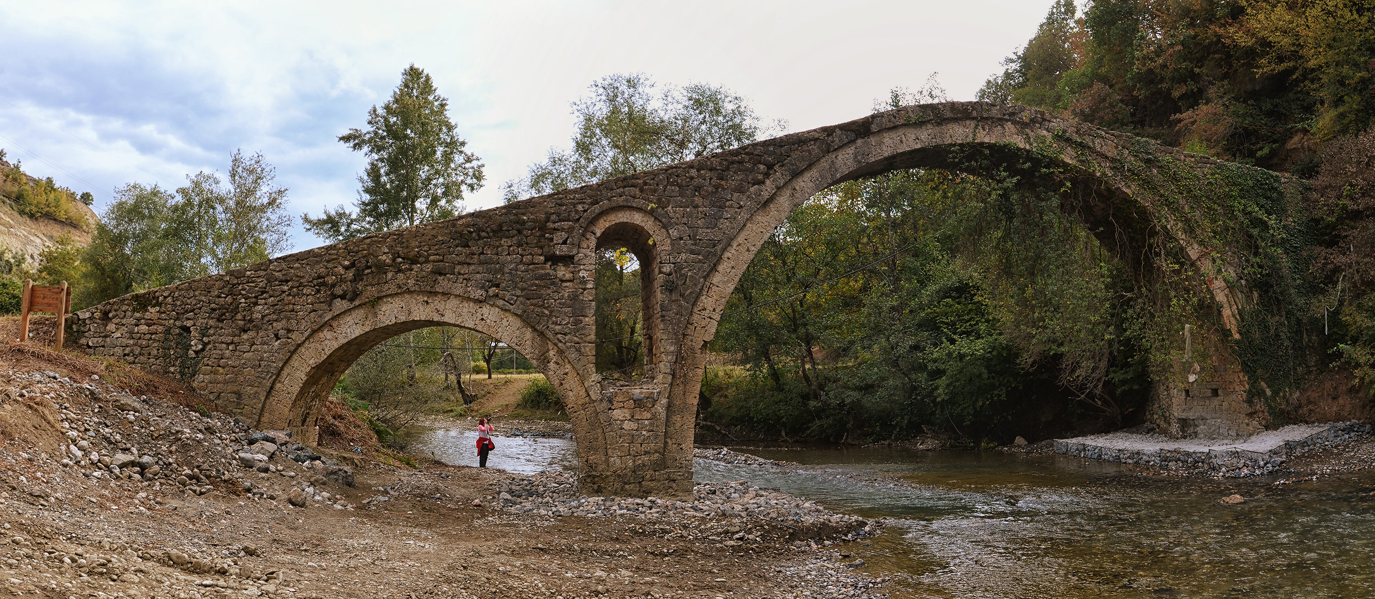 The Ottoman stone bridge above the Shkumbin near Golik, Albania